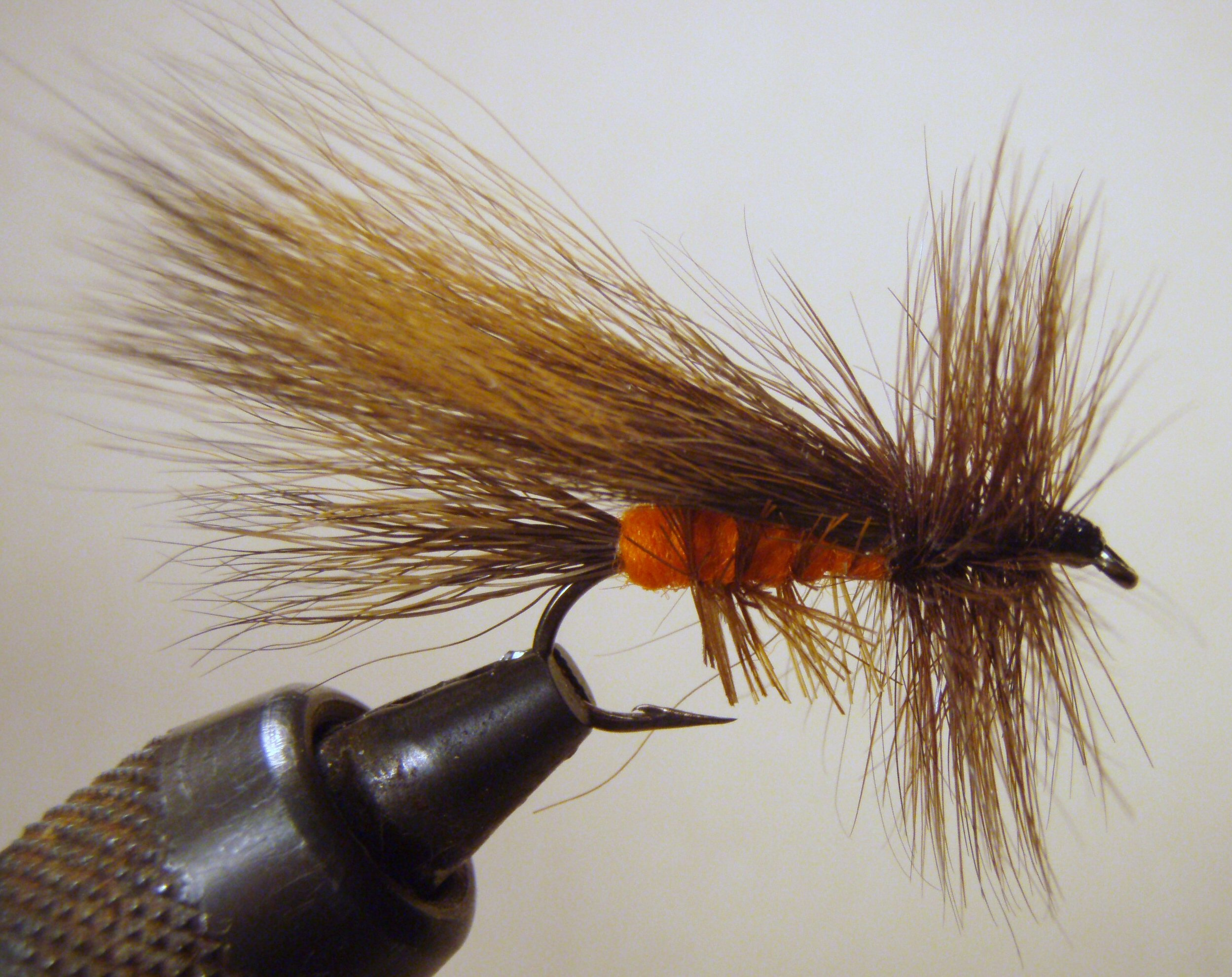 Park's Salmon Fly, designed by Merton J. Parks, Parks' Fly Shop, Gardiner, Montana 1954